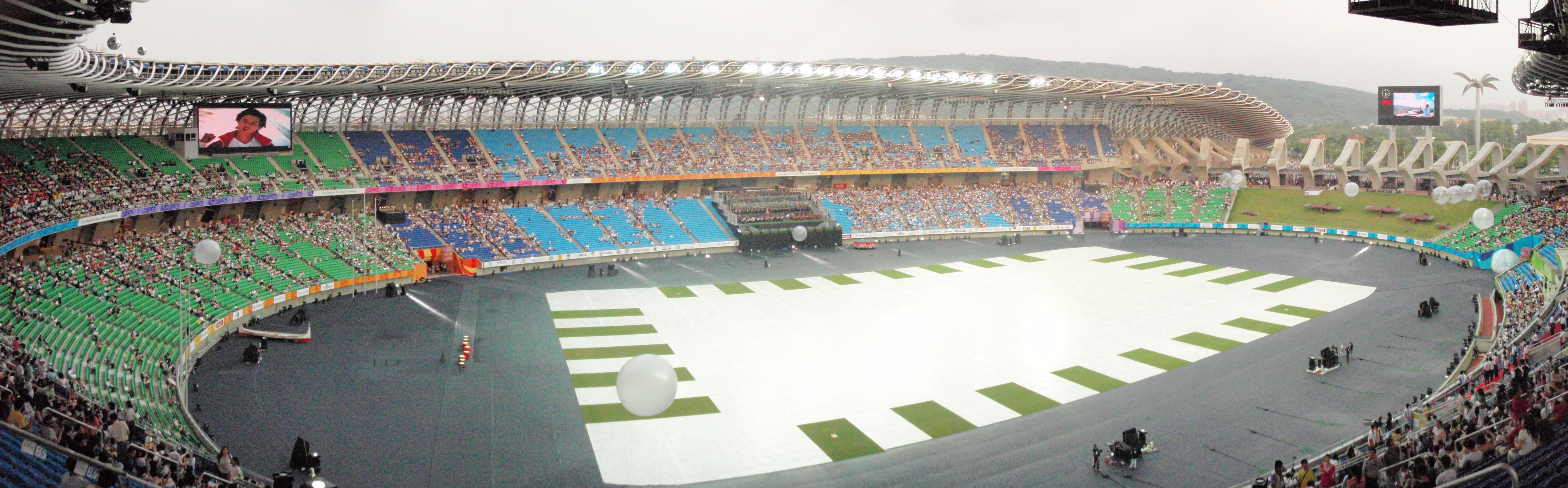 World Games Main Stadium Panorama